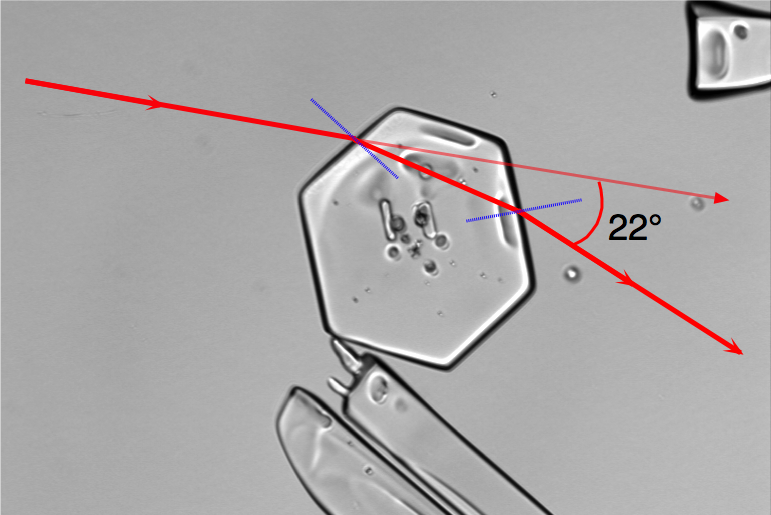 Microscope image of an ice crystal (diamond dust) sampled from the air in a height of 3000 m on the Antarctic ice sheet. Red lines show light refraction of 22° producing a halo around the sun.